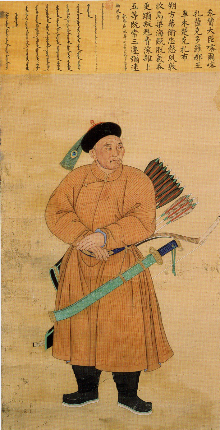 Cemcukjab / chin. Chemuchukezhabu ( 车木楚克扎布 che mu chu ke zha bu), was an officer of the Qing Army.